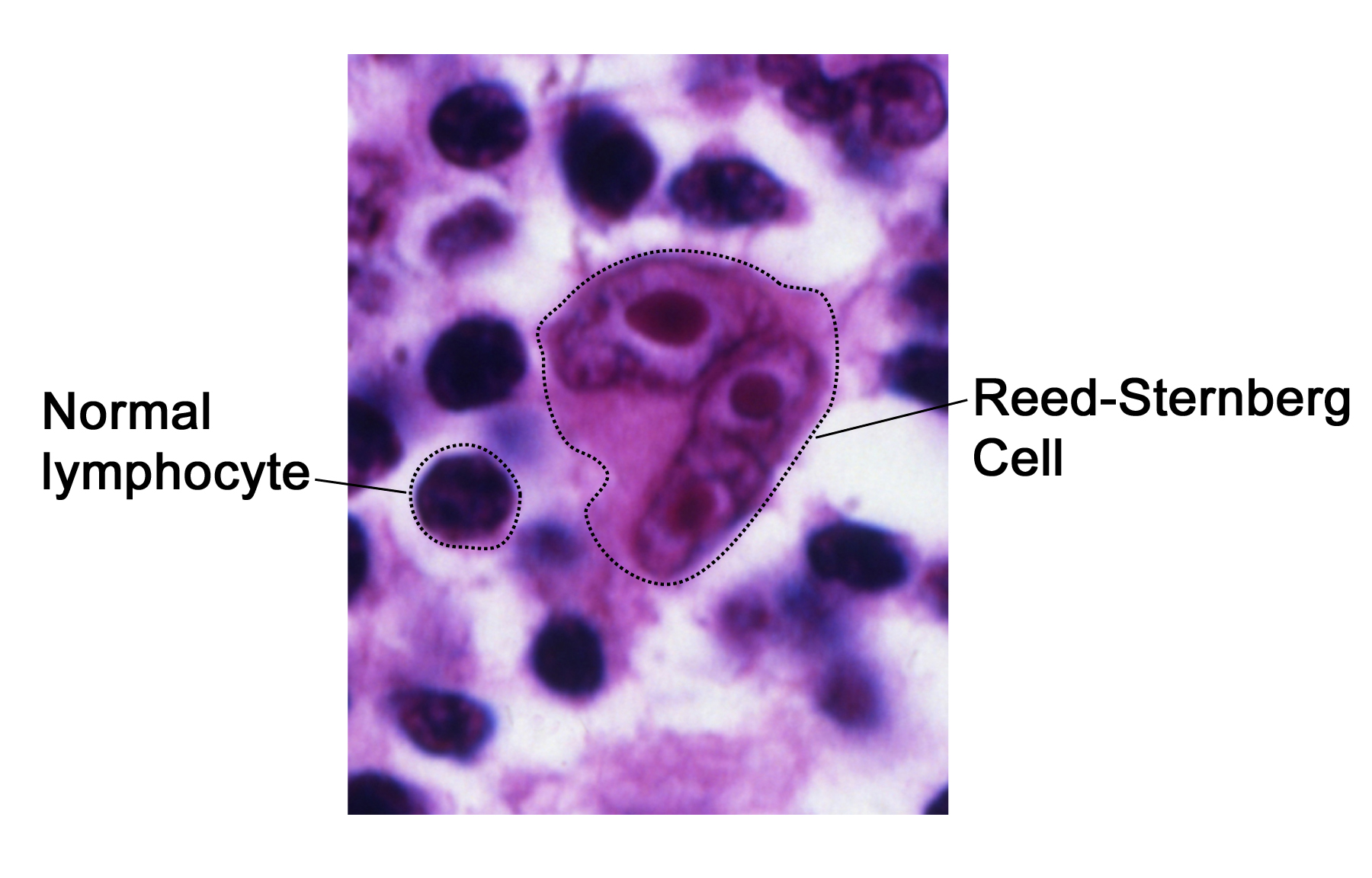 Reed-Sternberg cell; photograph shows normal lymphocytes compared with a Reed-Sternberg cell, which are large, abnormal lymphocytes that may contain more than one nucleus. These cells are found in Hodgkin lymphoma.